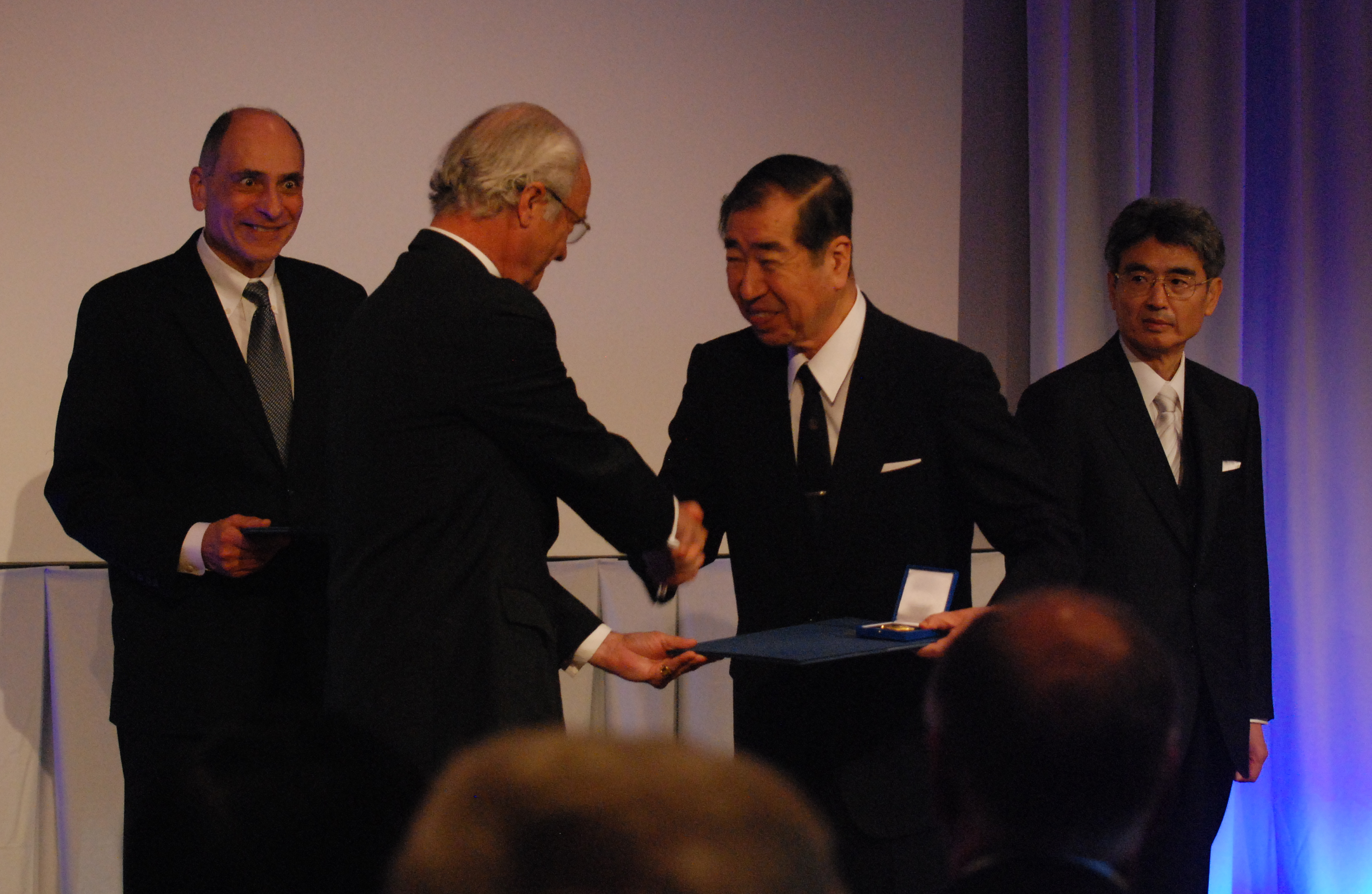 Crafoord Prize 2009, prize-awarding ceremony: H.M. Carl XVI Gustaf of Sweden presents the prize to Tadamitsu Kishimoto. In the backgroung are Charles A. Dinarello and Toshio Hirano.